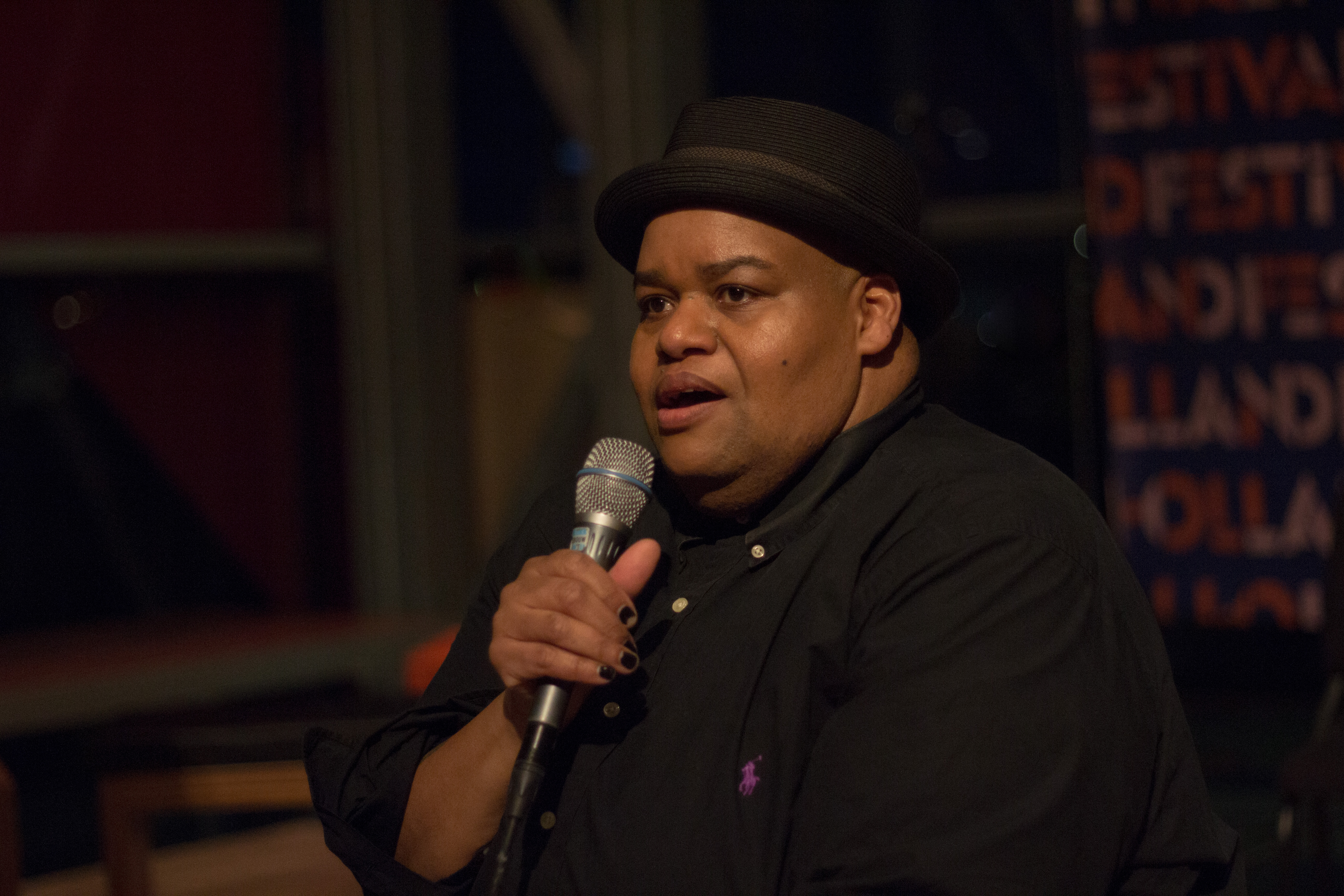 Toshi Reagon after the performance of "Parable of the Sower" at the Holland Festival in Amsterdam